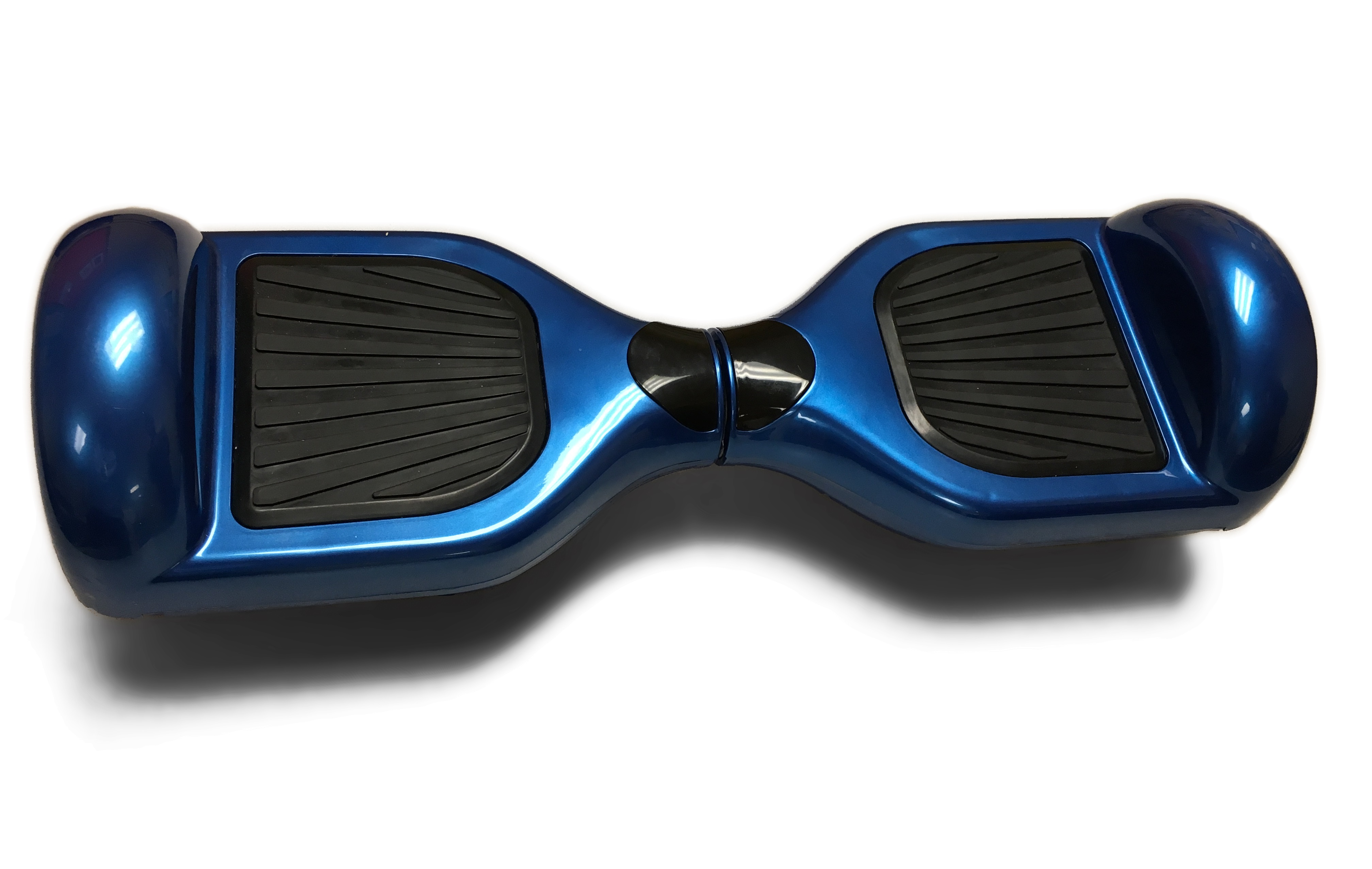 Hoverboard Scooter LBS15 - The "Little Scooter"